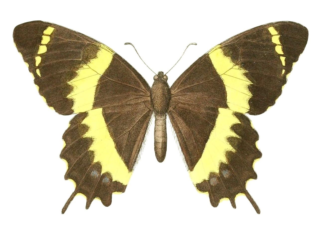 Papilio abderus = Papilio garamas abderus - dorsal view